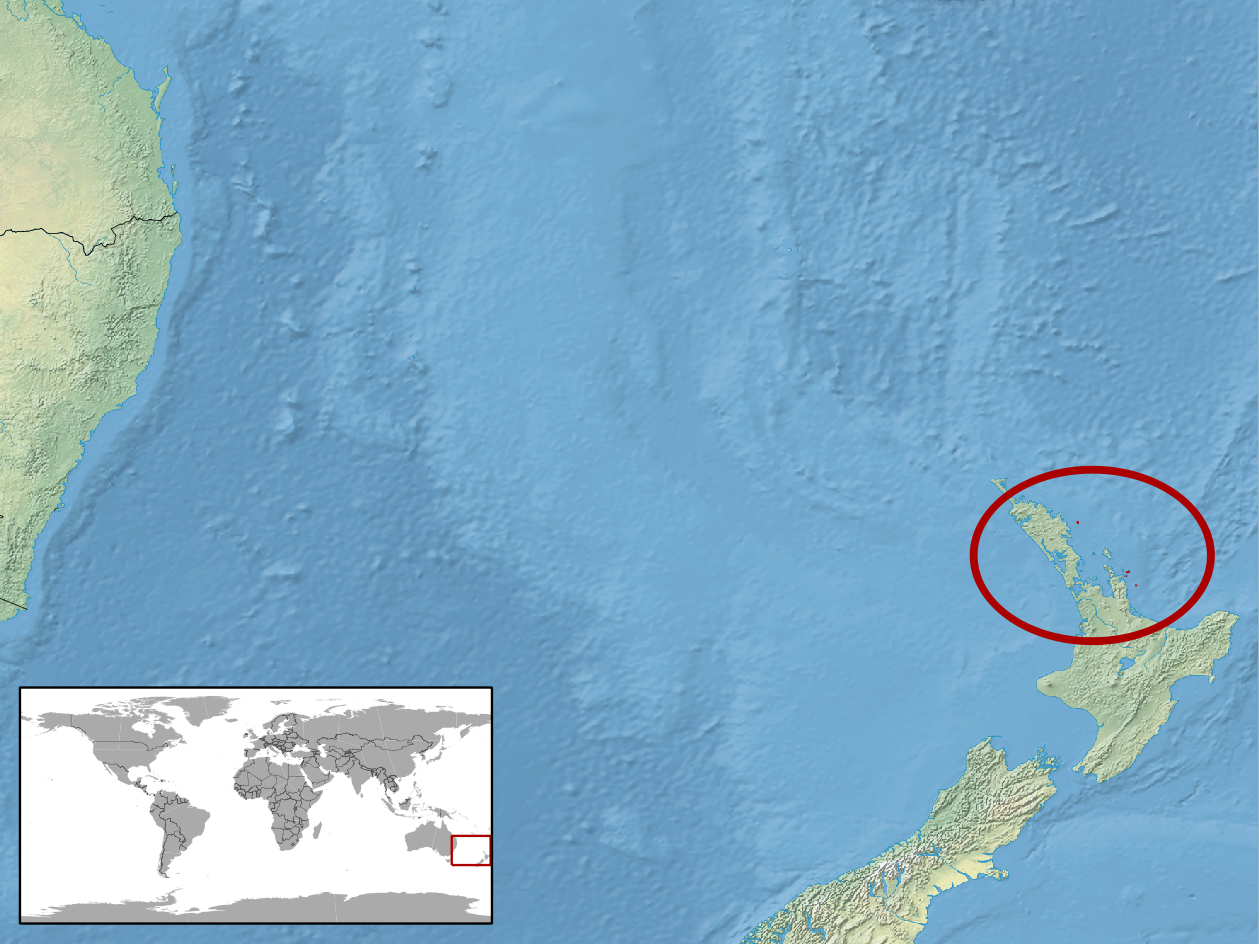 geographic distribution of Oligosoma oliveri